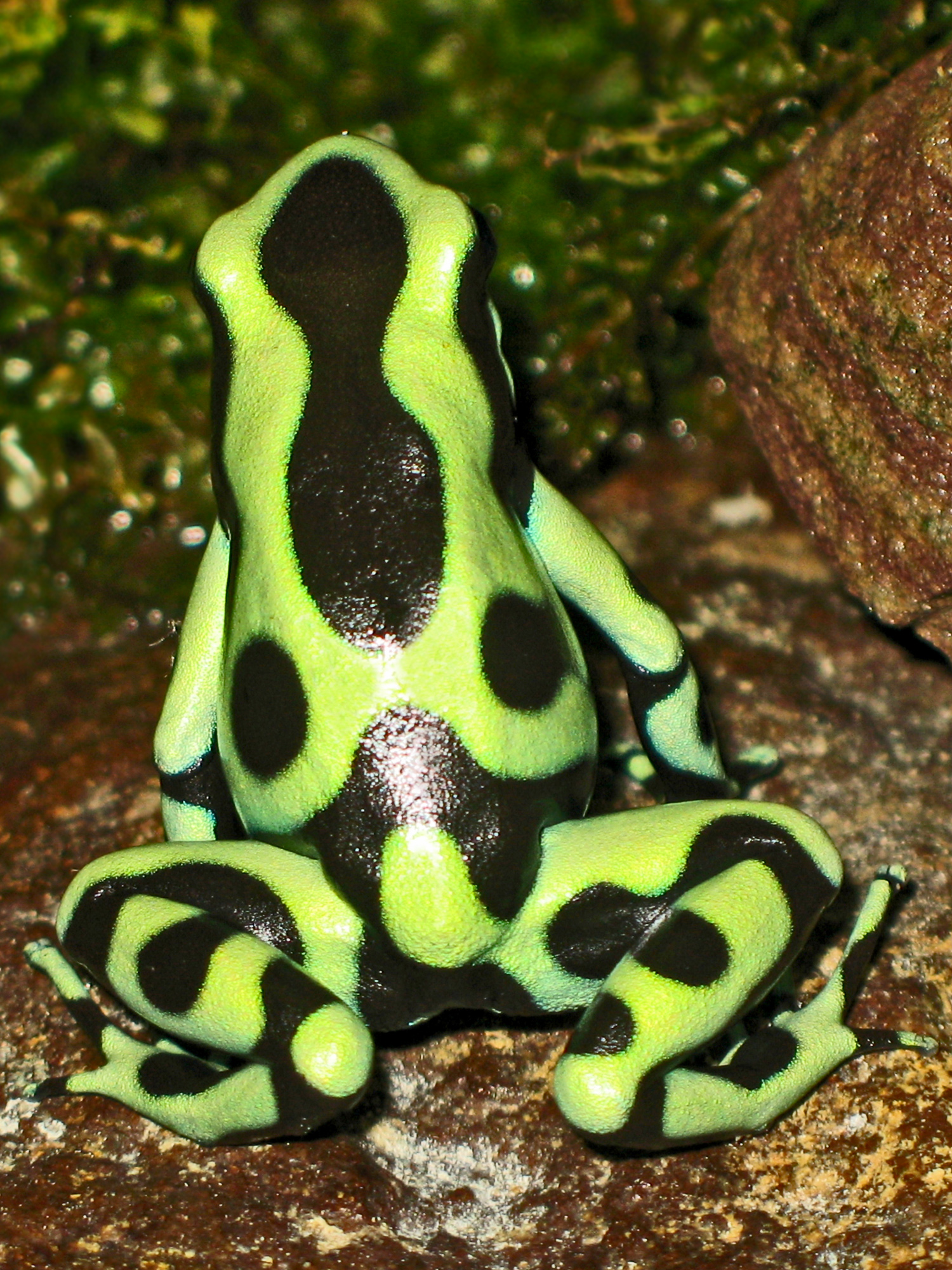 Green and black poison dart frog, green and black poison arrow frog